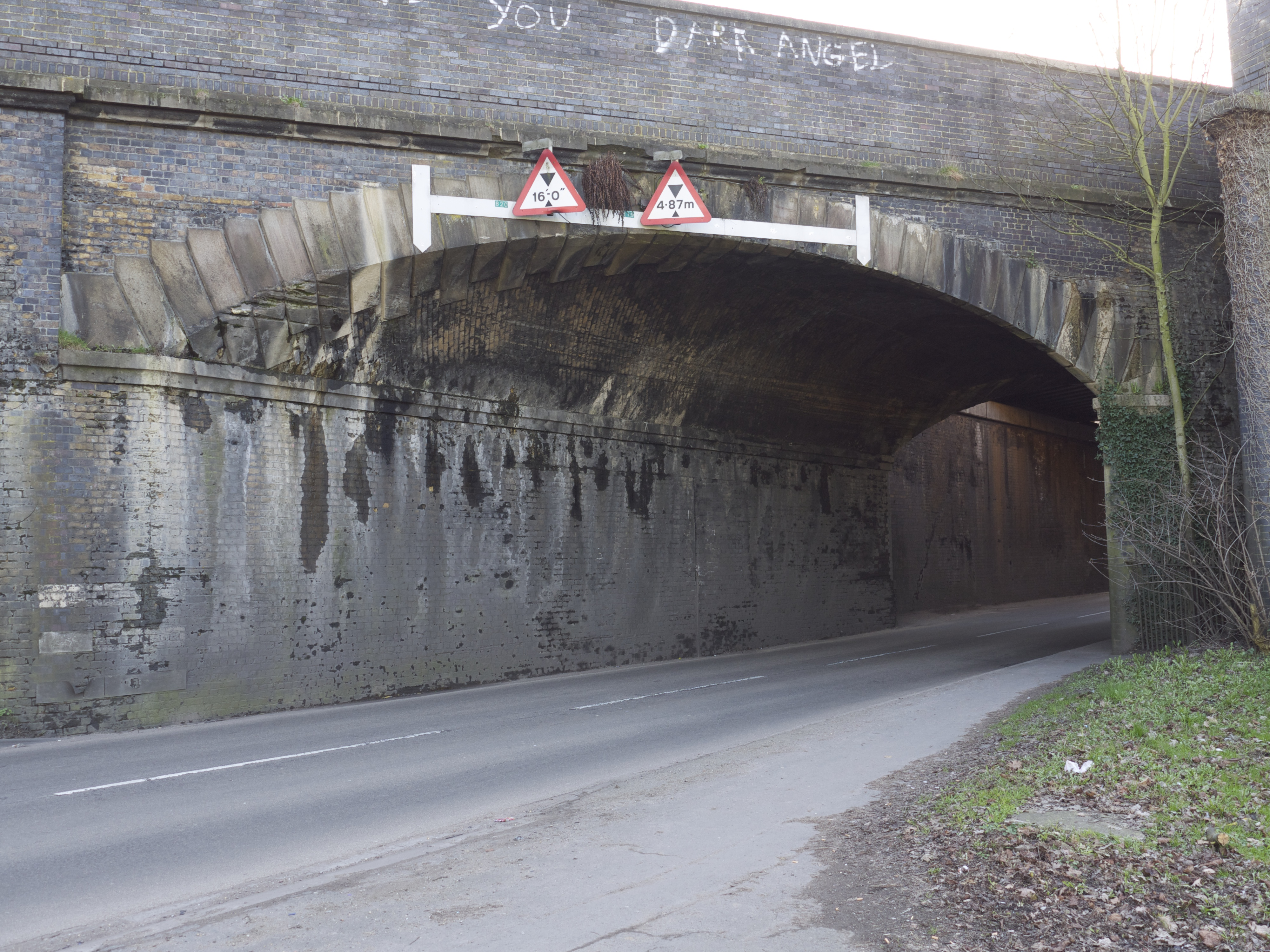 General view of Boxmoor Skew Bridge from London Road